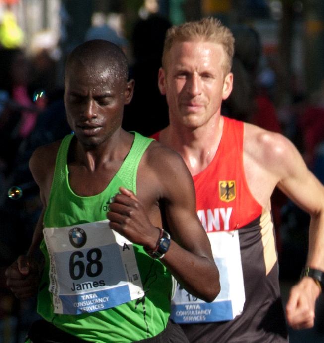 Elite runners at the Berlin Marathon 2012 passing Kleistpark between Kilometers 21 and 22.